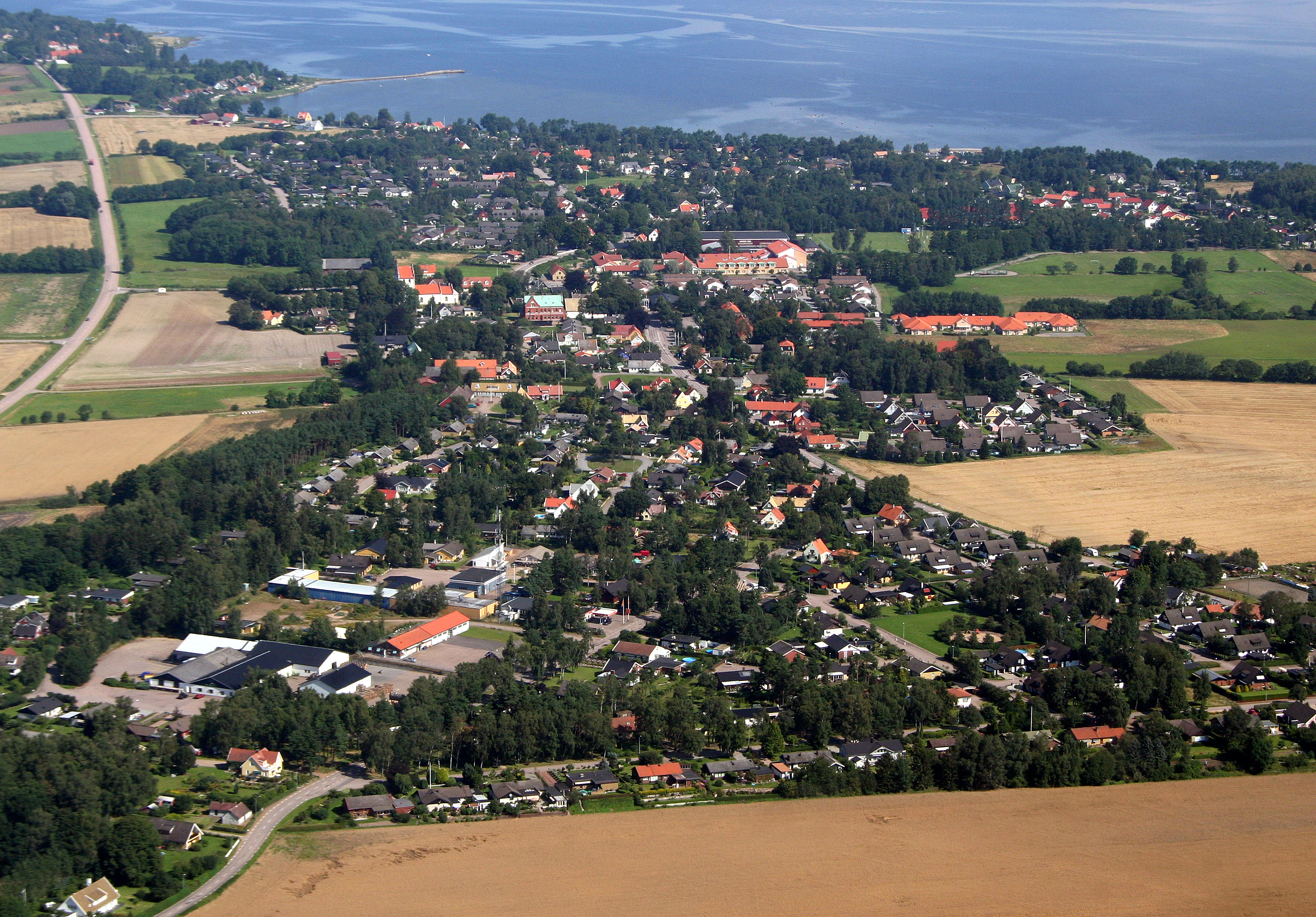 Jonstorp village in Höganäs Municipality, Sweden.